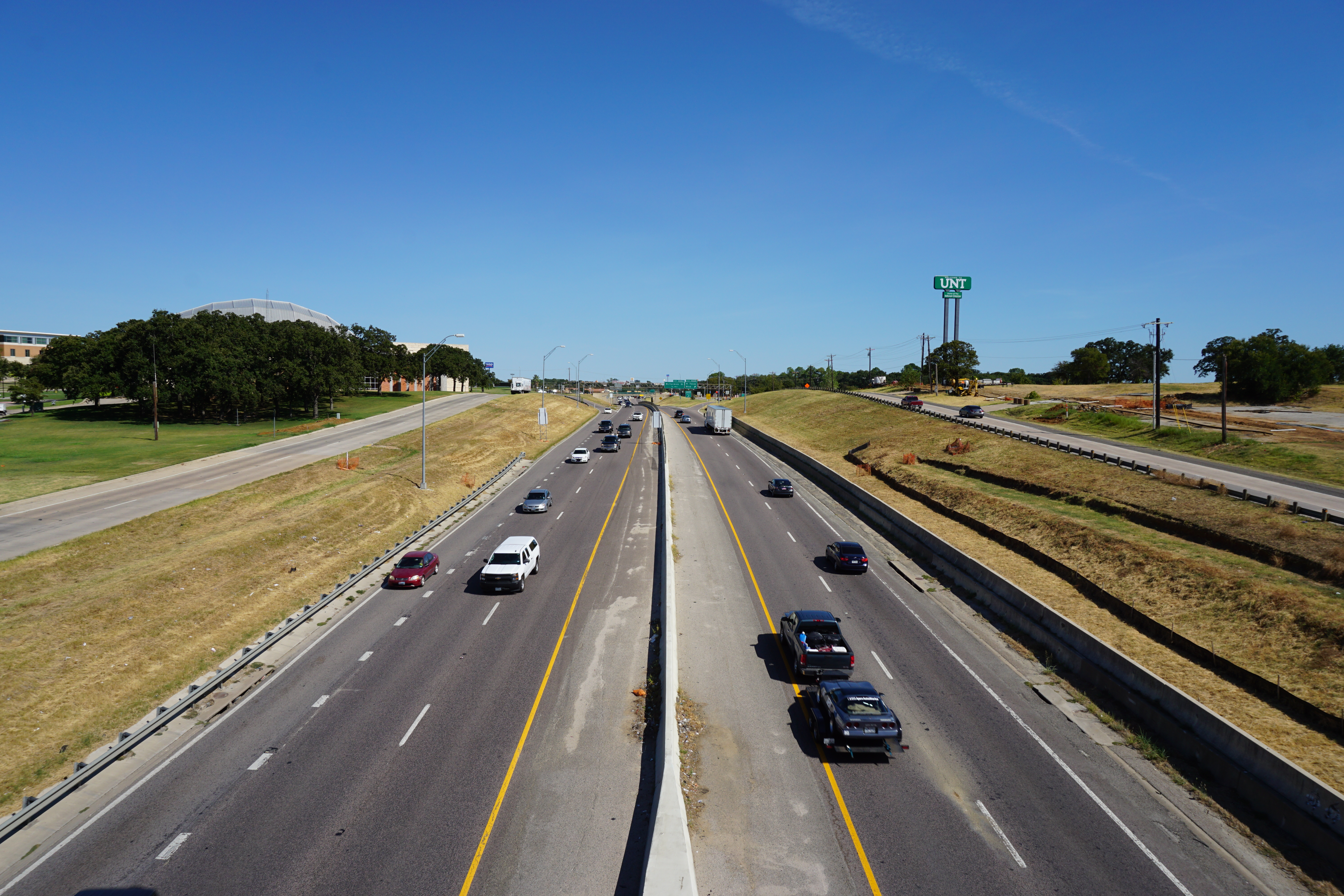 A view of Interstate 35E from the pedestrian bridge on the campus of the University of North Texas in Denton, Texas (United States).